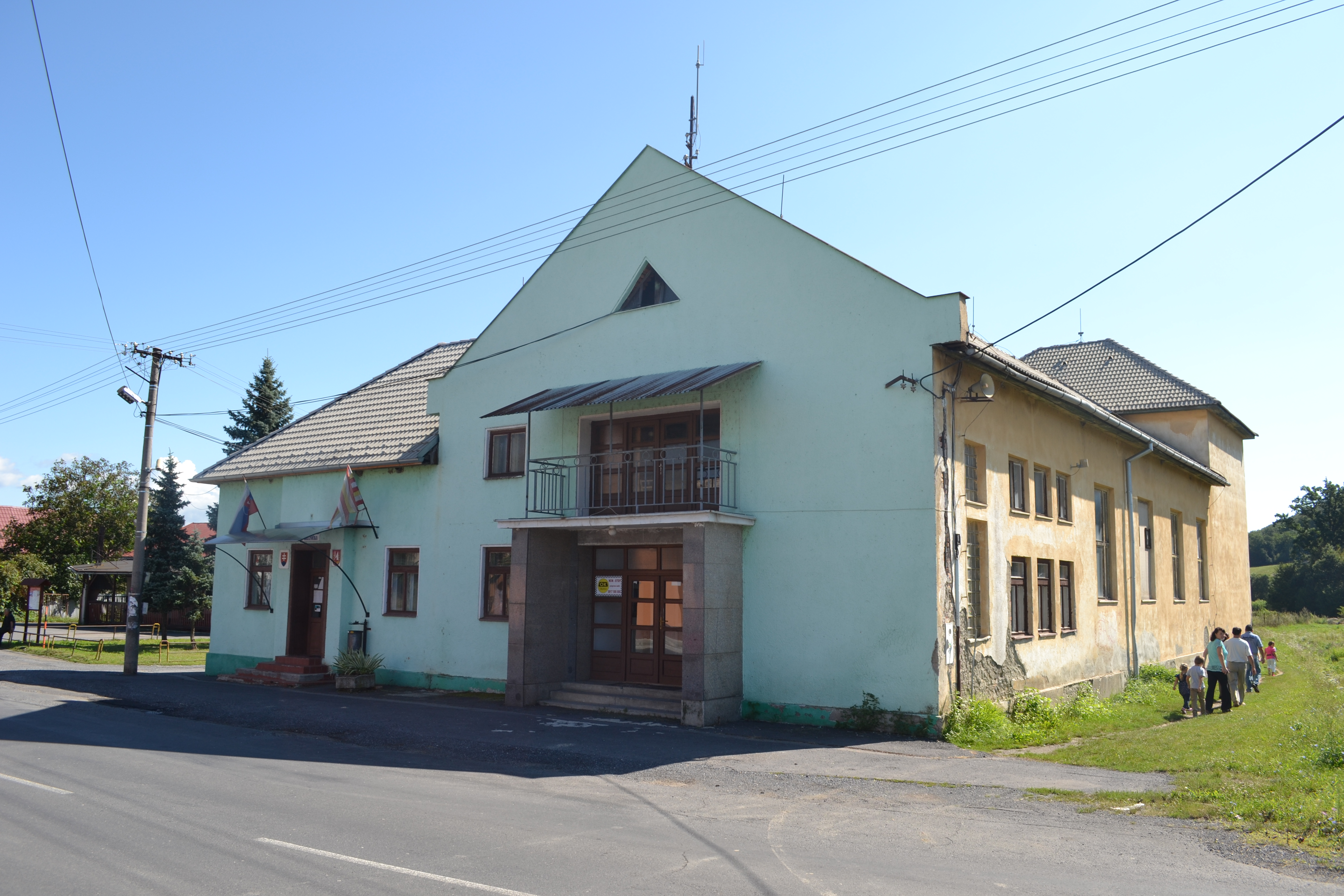 Street of the village BrezničkaSlovenčina: Obecný úrad v Brezničke